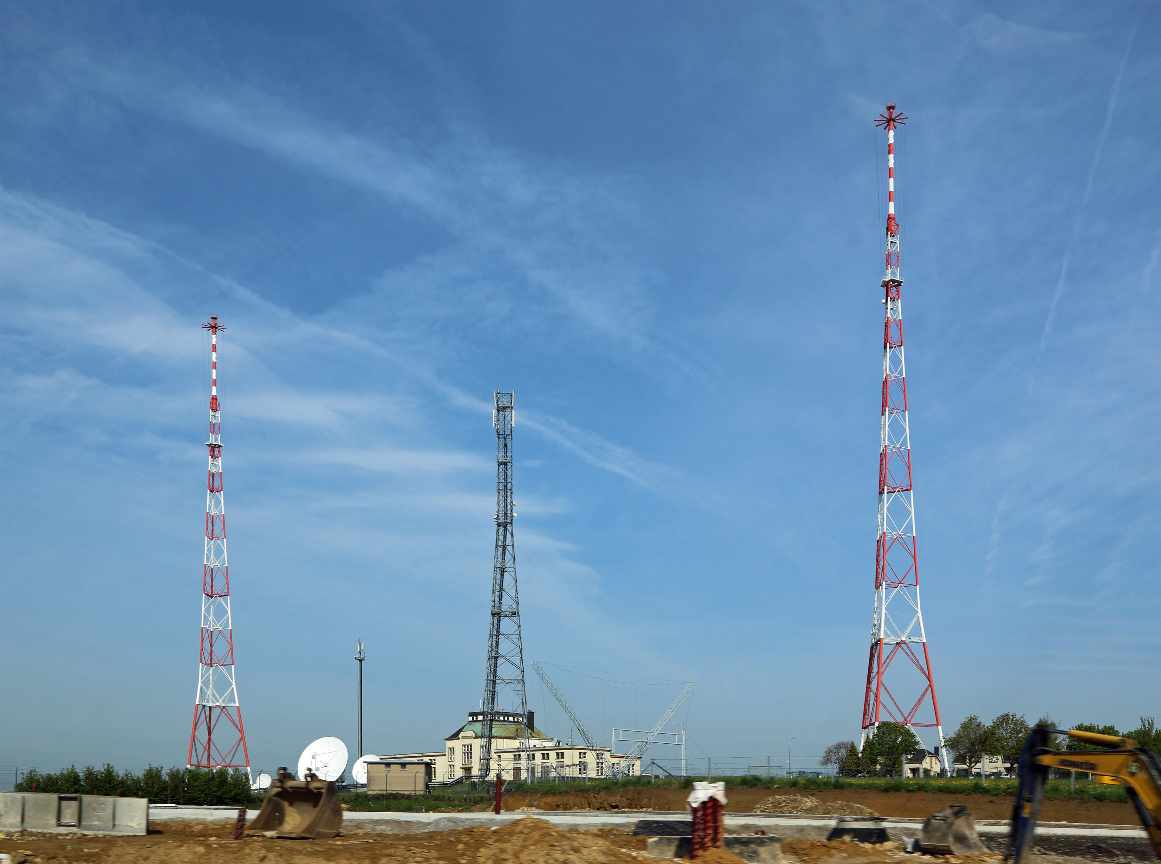 Junglinster transmitter (Grand Duchy of Luxembourg)